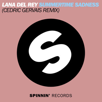 "Summertime Sadness (Cedric Gervais remix) cover album Spinnin' Records logo